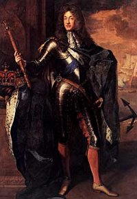 King James II